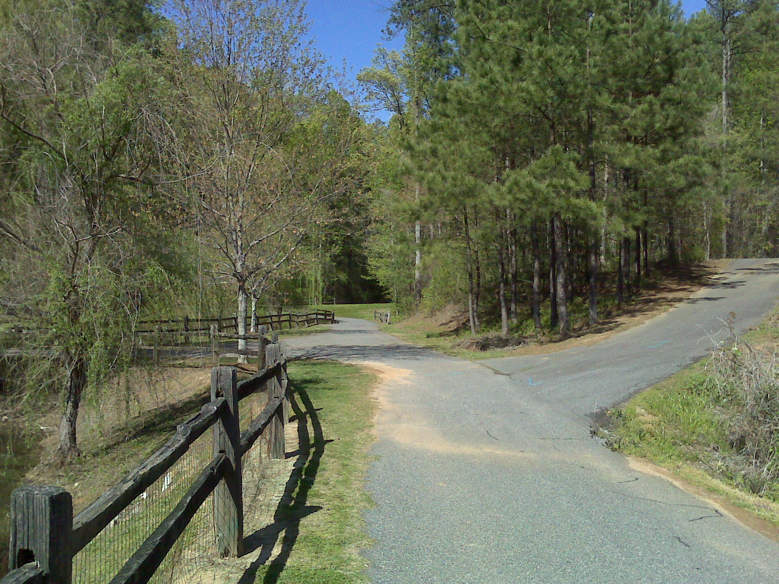 Picture taken at East Roswell Park in Roswell, Georgia, United States